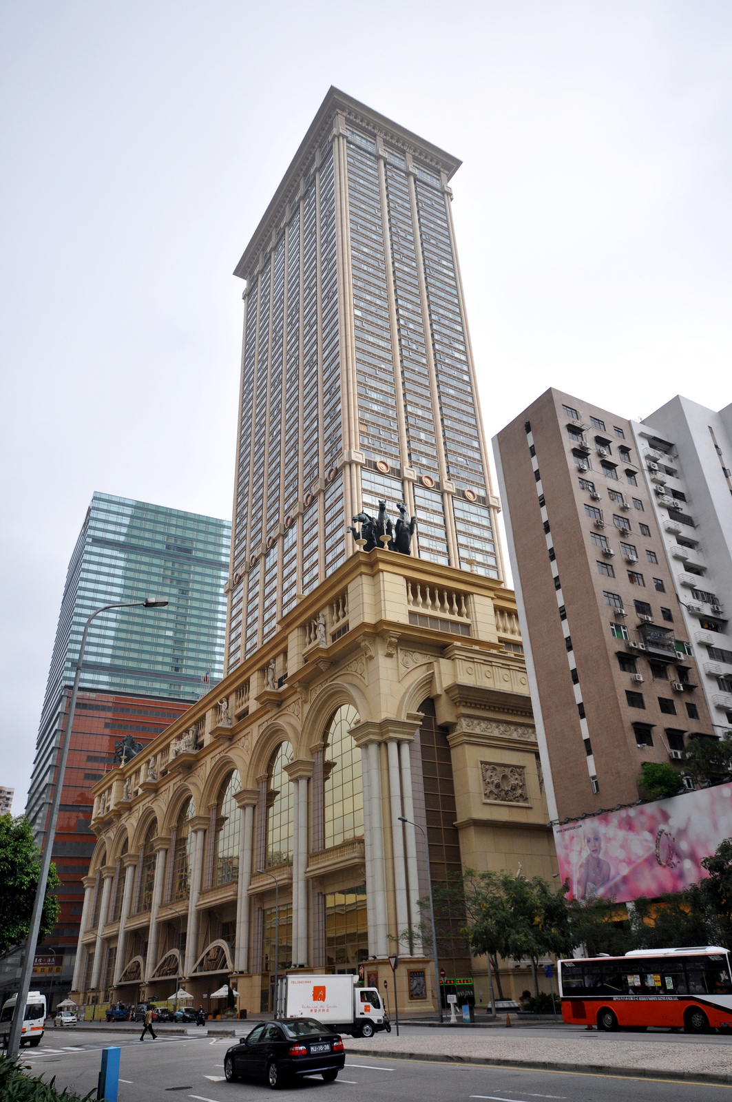 L'Arc Casino in Macau, as taken from corner MGM/Wynn Macau